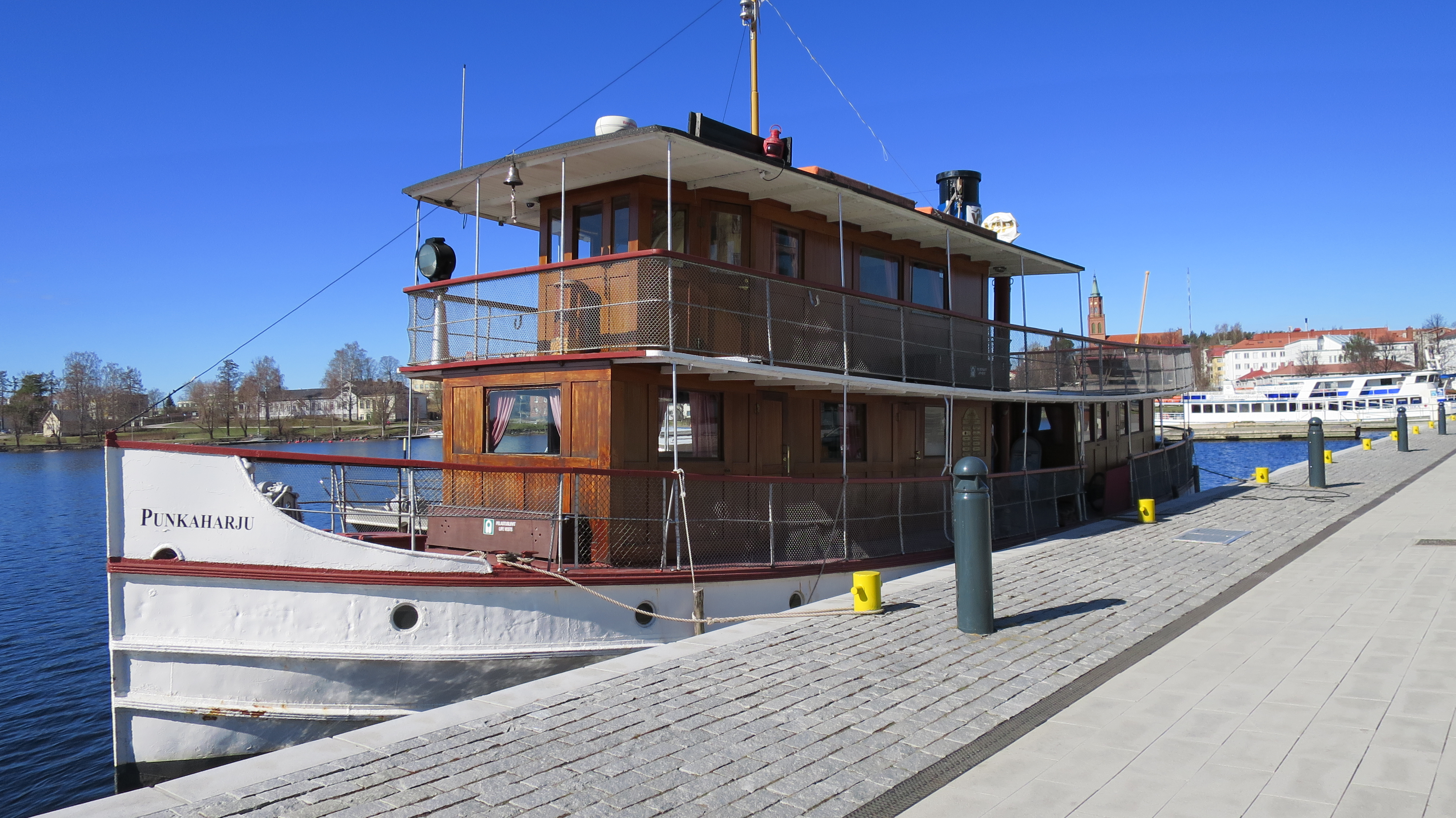 S/S Punkaharju in Savonlinna harbor.